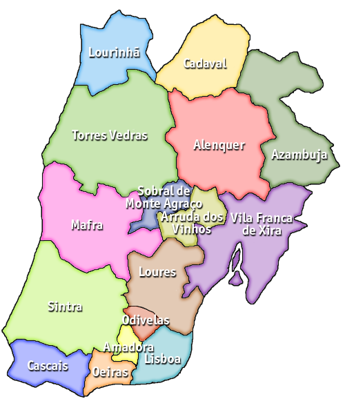 Image made by me, Mortadelo2005 based on Image:Lisboa-concelhos.png, by User:João Correia